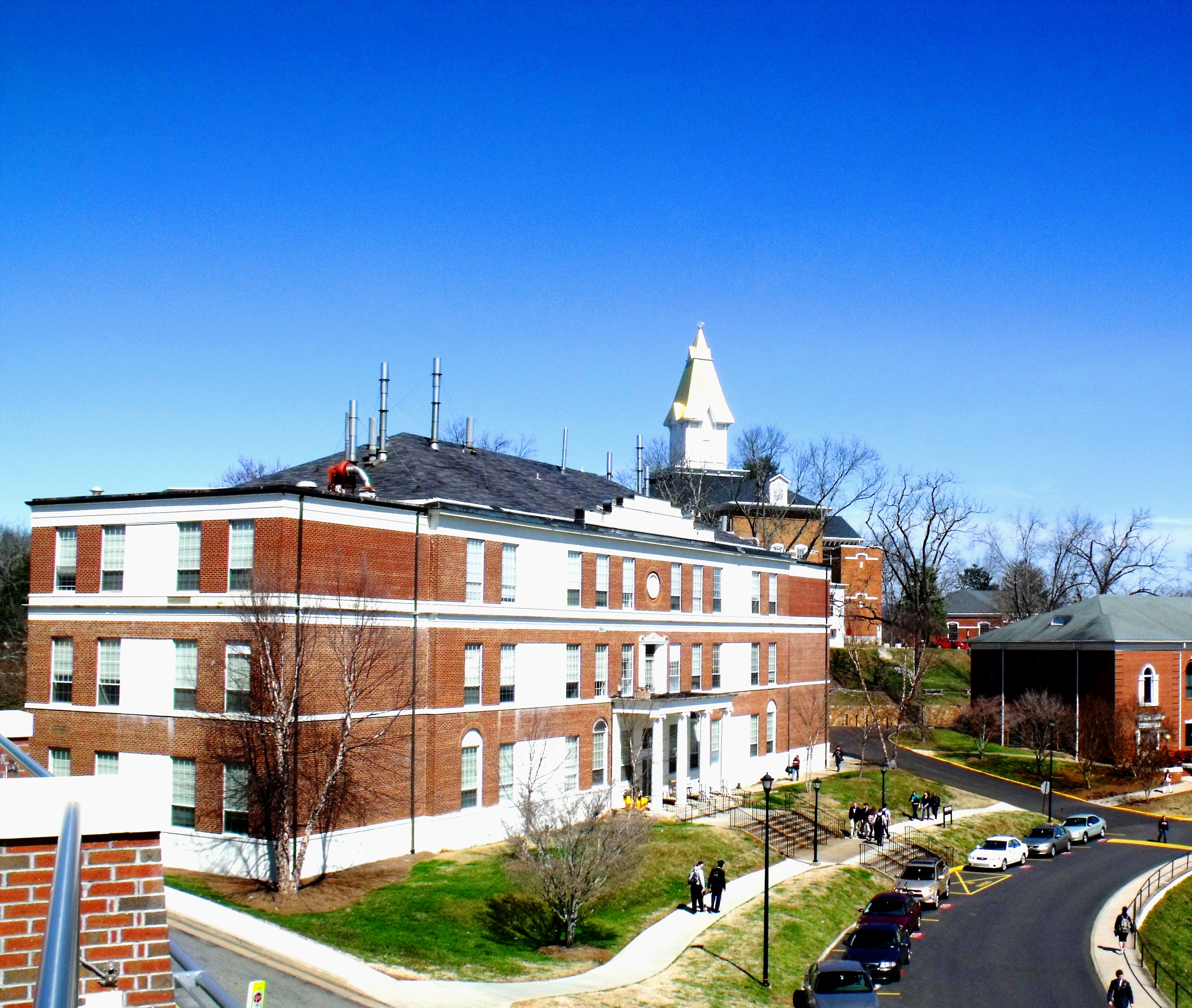 Rogers Hall was opened in 1948 for the use of science department at the University of North Georgia